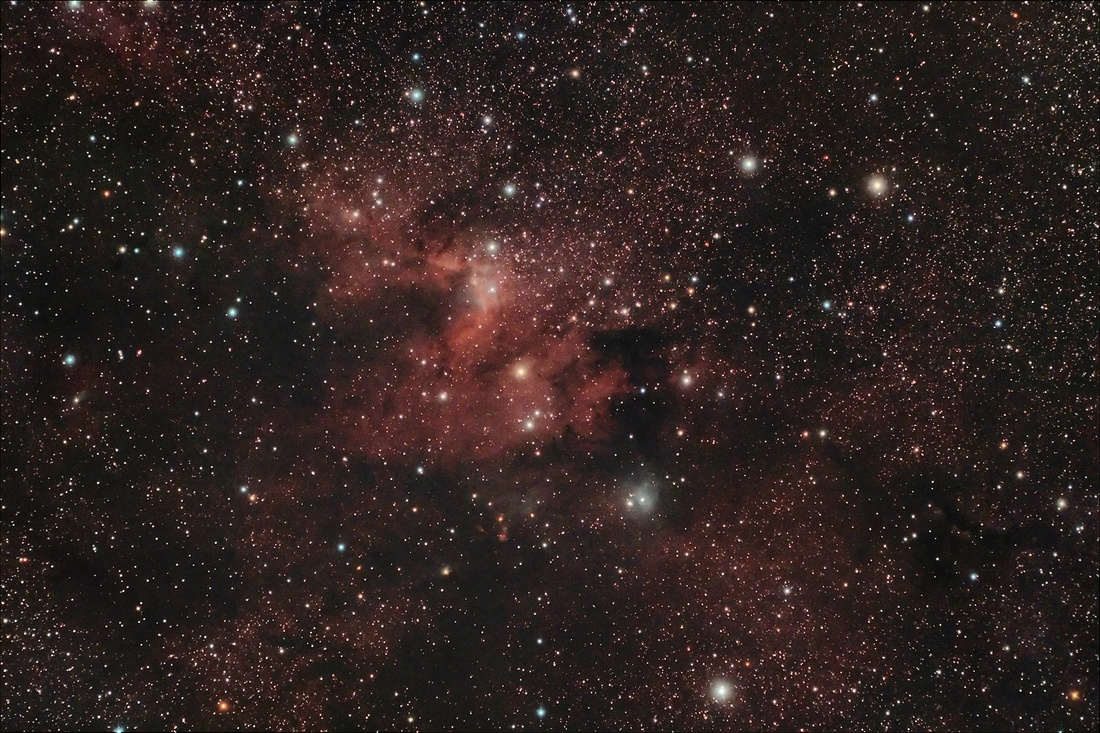 Sh2-155, Cave Nebula